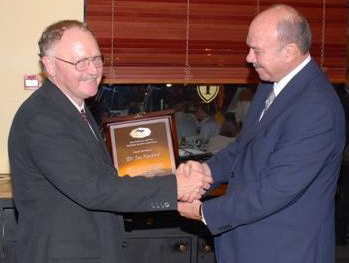 Dr. Joe Harford (l), director of NCI’s Office of International Affairs, receives the Arab Medical Association Against Cancer (AMAAC) award from former Prime Minister Faisal Al Fayez of Jordan (r).